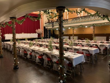 The Town Hall theatre is available for private hire.